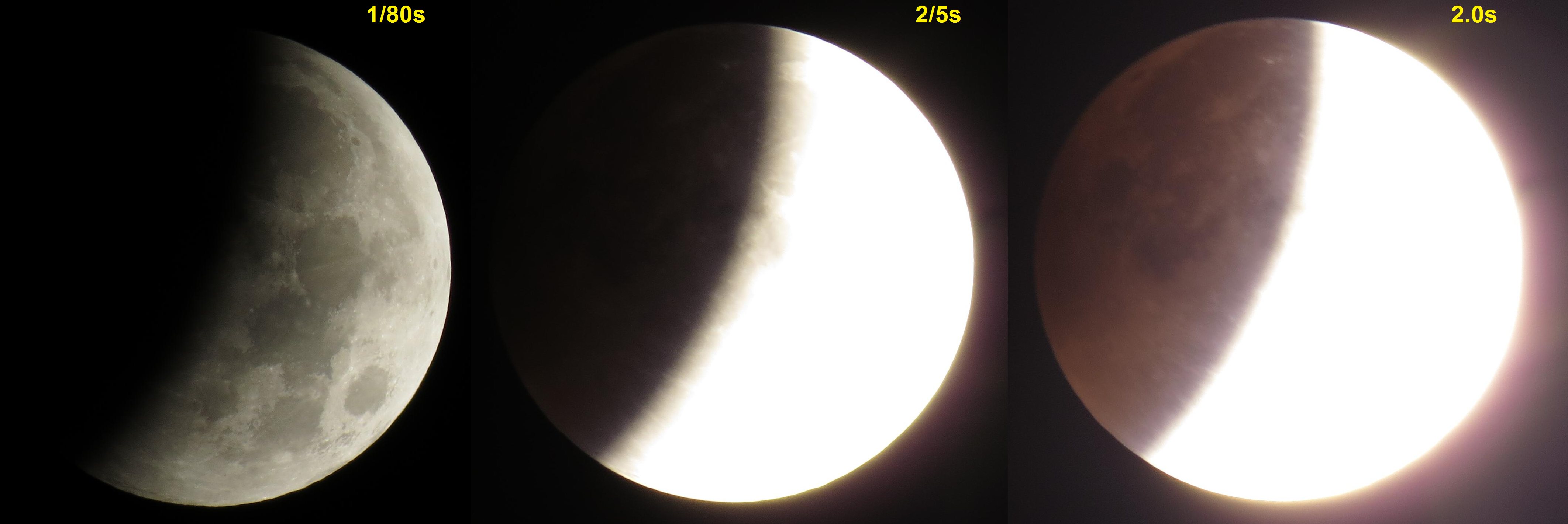 Partial eclipse October 2014 lunar eclipse partial eclipse 9:46 UTC